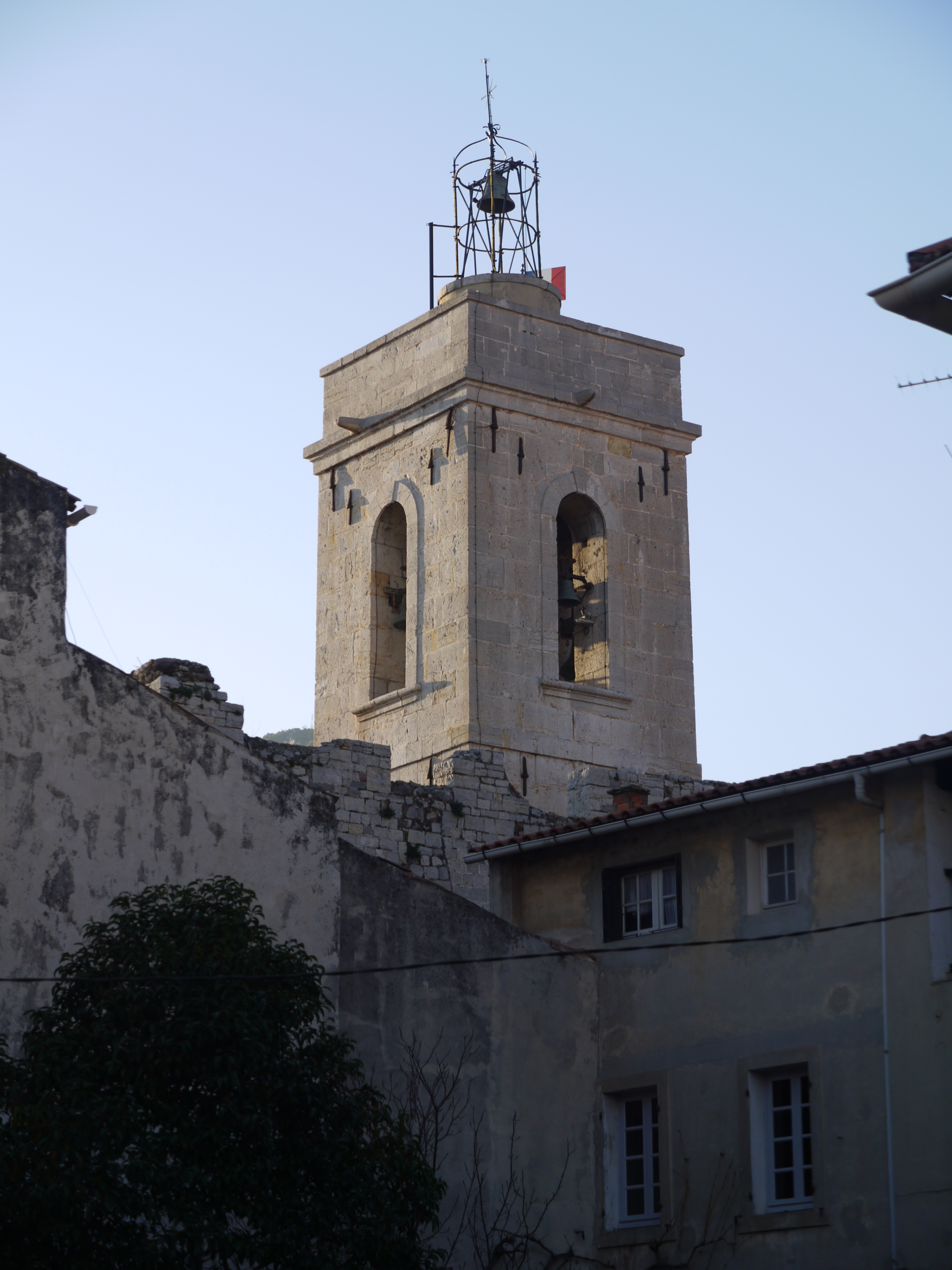 Photographs taken in La Valette du Var in France.